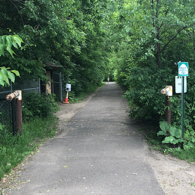 The north entrance of Minnehaha Trail with a MRT sign visible at right, and the trail gently descending into a forested canopy.